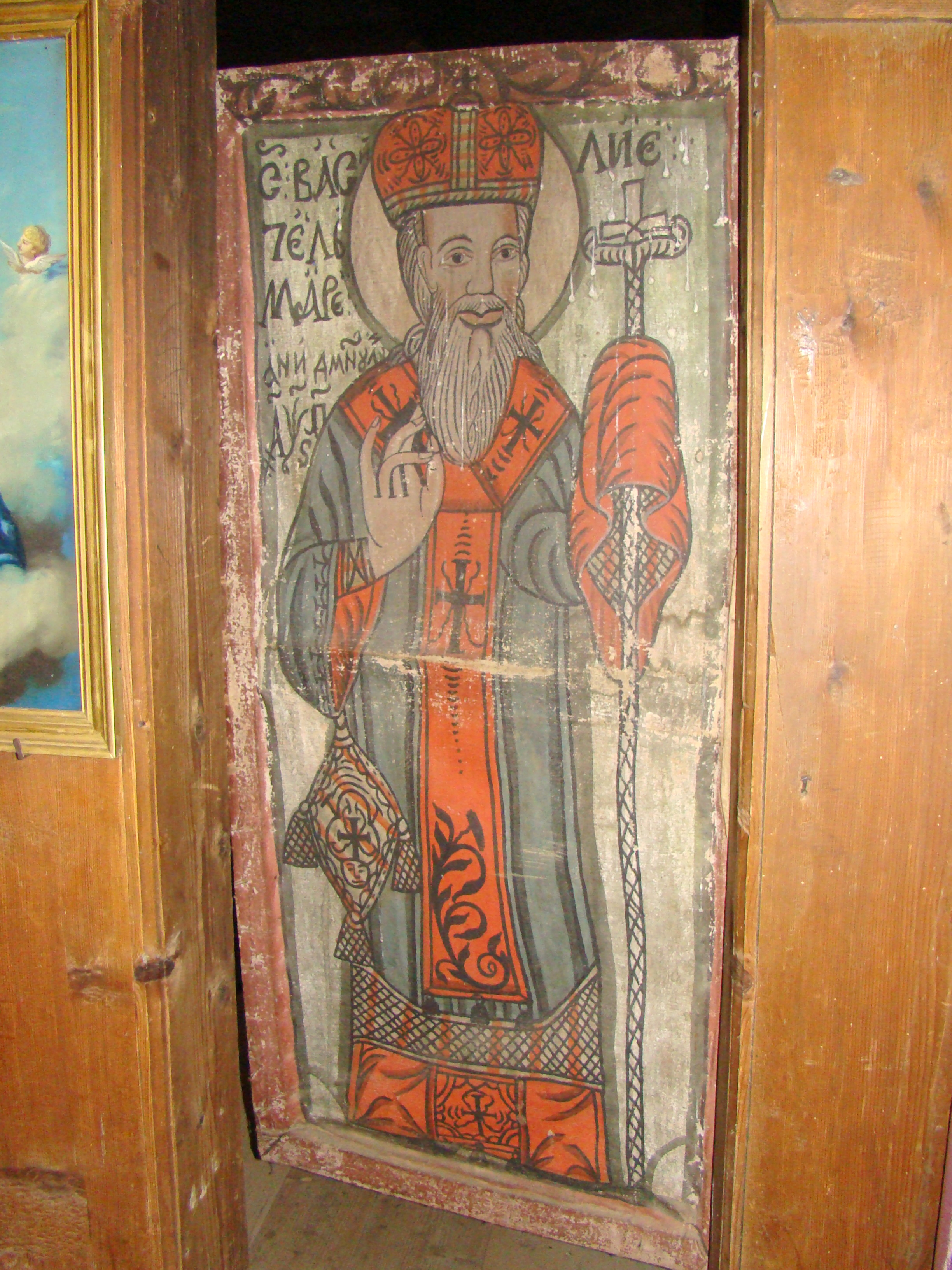 Wooden church in Lugașu de Sus, Bihor county, Romania